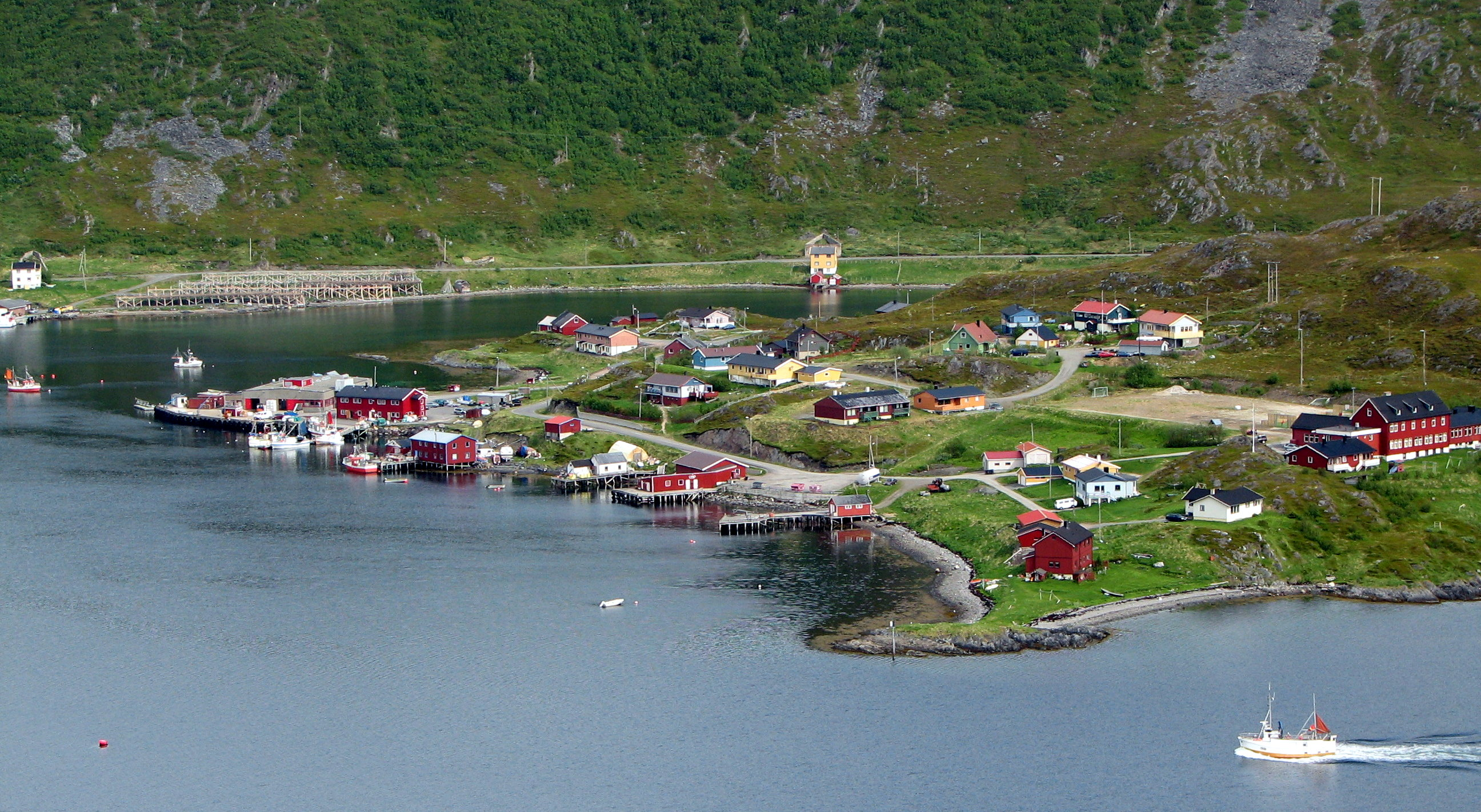 A picture of Skjånes, Gamvik, Norway